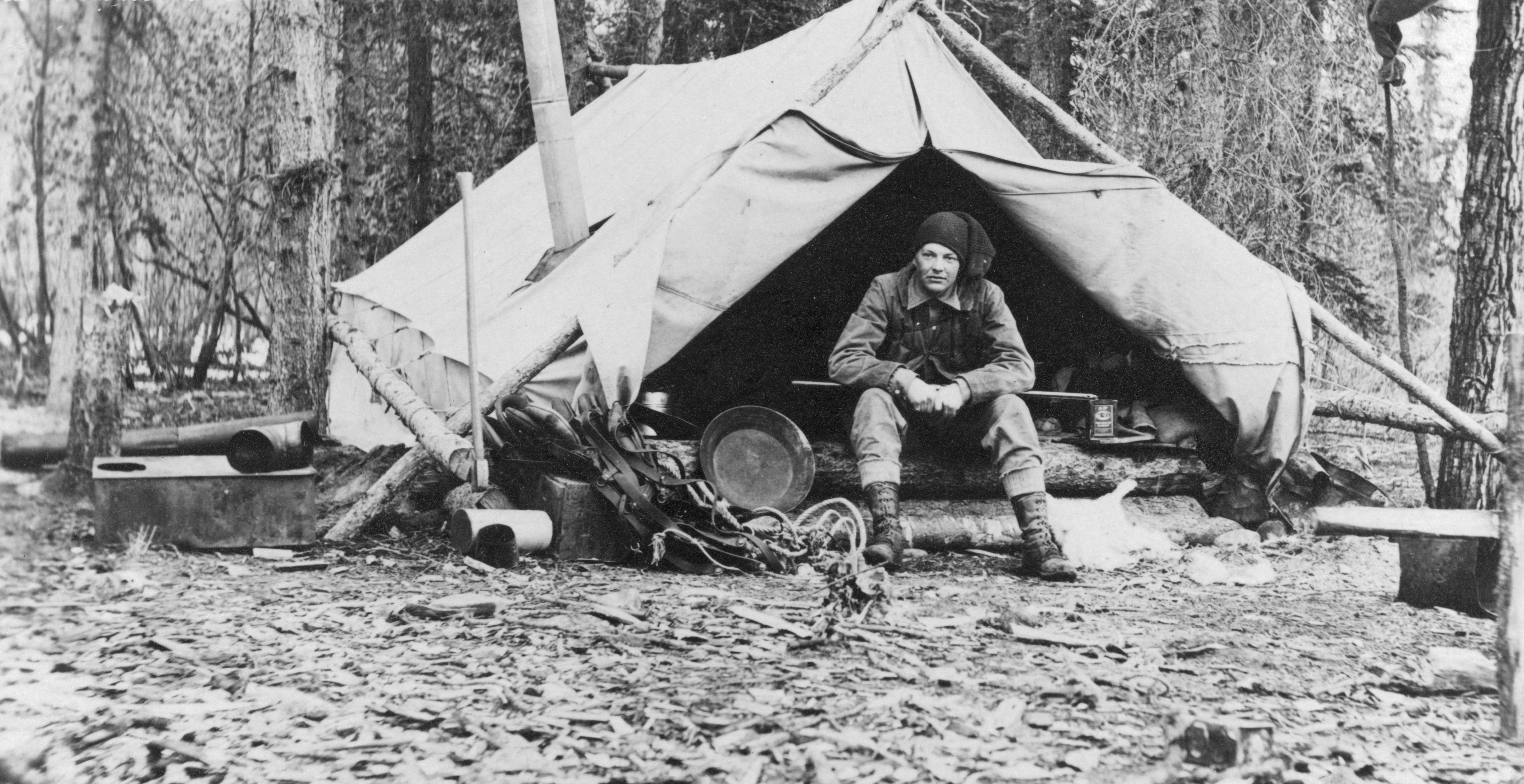 George Alexander Parks (1883 – 1984), Governor of Alaska Territory (1925 - 1933) in camp, circa 1915.